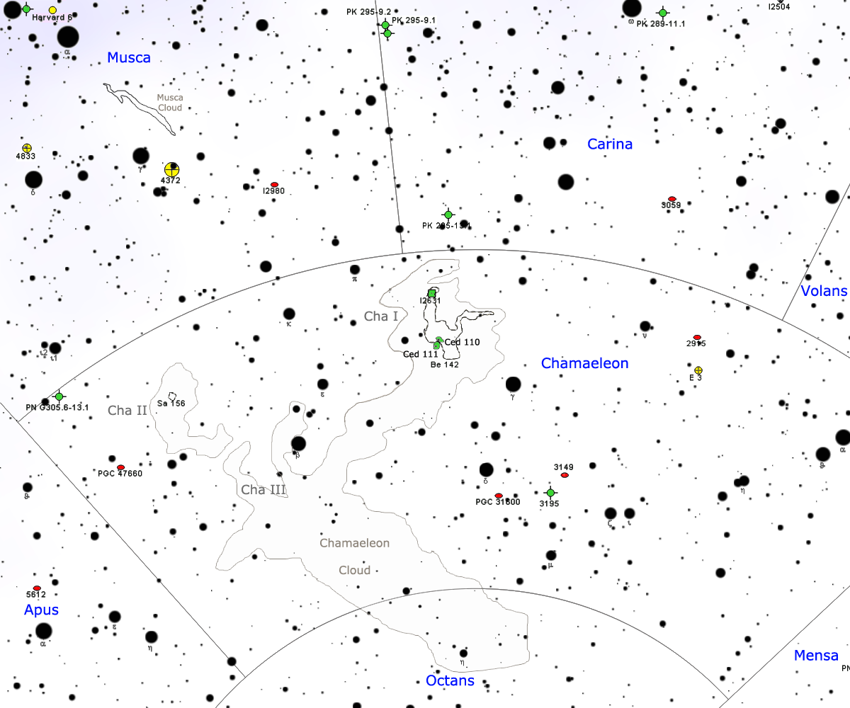 Map of Chamaeleon Cloud